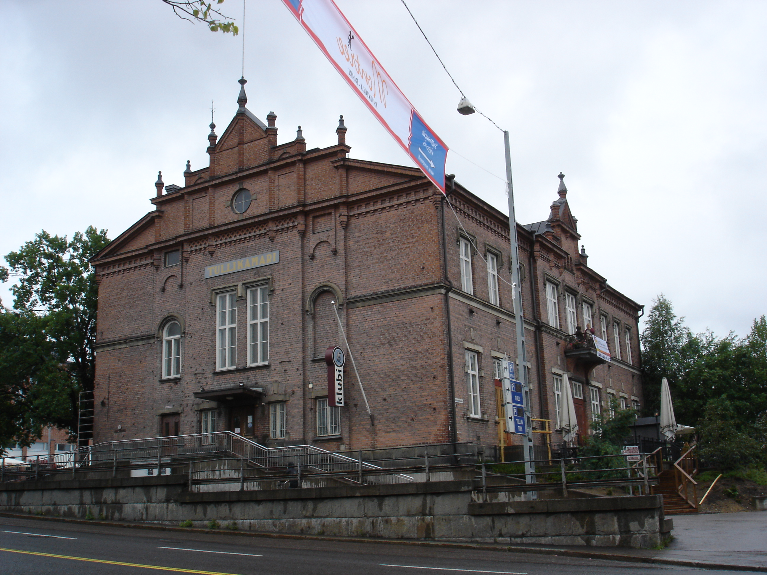 The Cultural Centre of the Old Customs House in Tampere. Designed by architect Georg Schreck, the building was constructed in 1901.